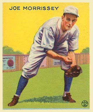 1933 Goudey baseball card of Joseph "Jo-Jo" Morrissey of the Cincinnati Reds #97. PD-not-renewed.